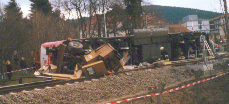 train accident on March 13, 2000 in Ilmenau, Germany.